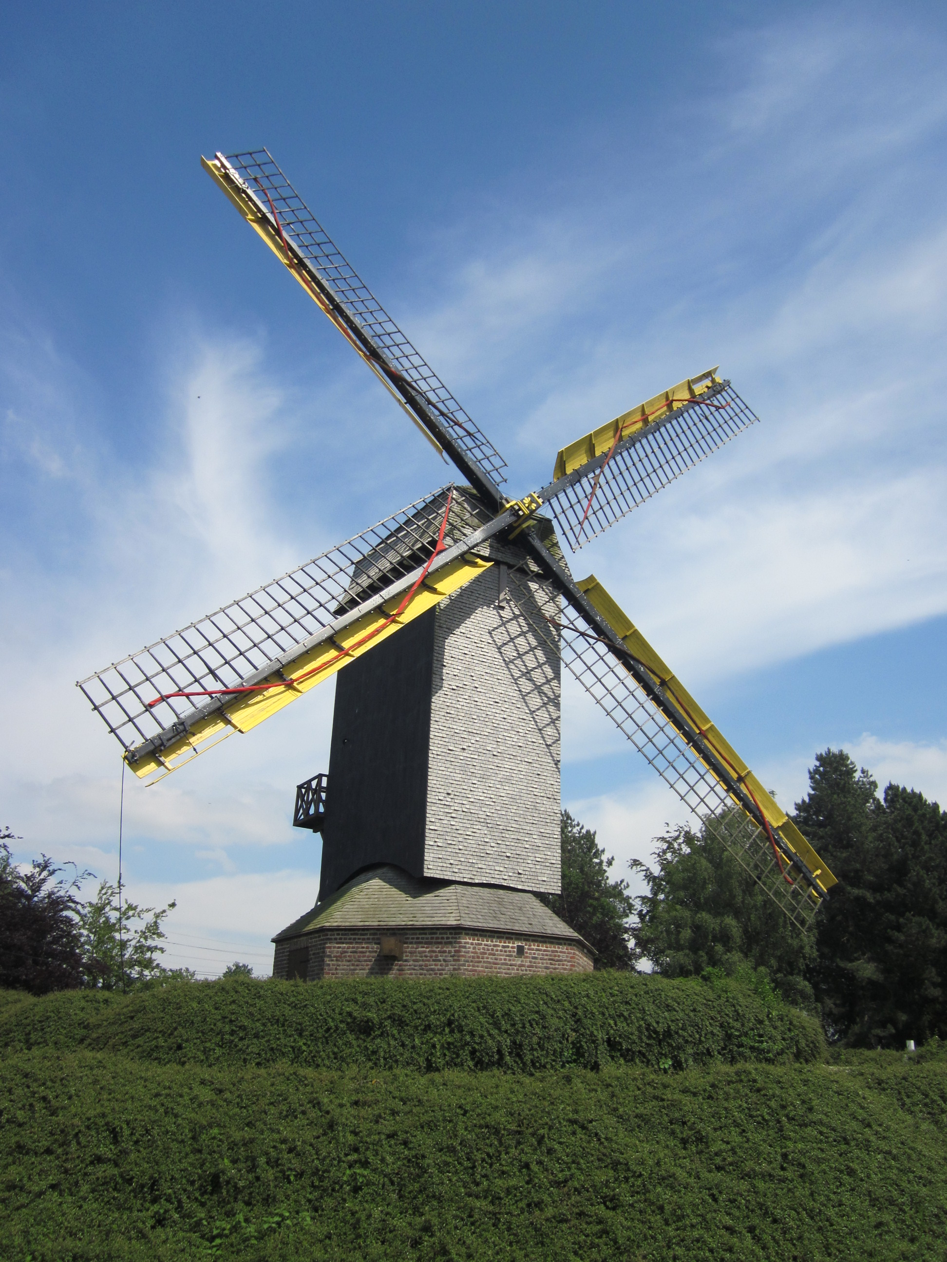 Windmill in Gits, Belgium